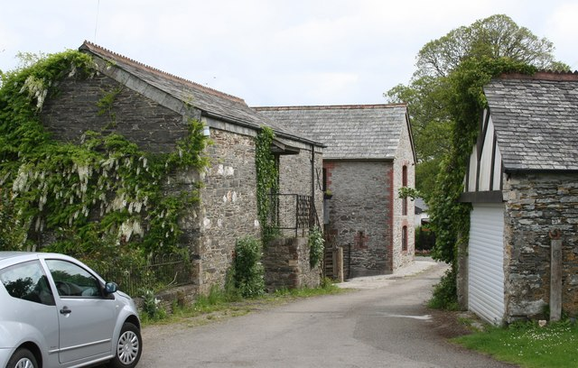 Converted Barns at Pempwell It looks like these old farm buildings have been through a makeover. It is likely they are now holiday accommodation